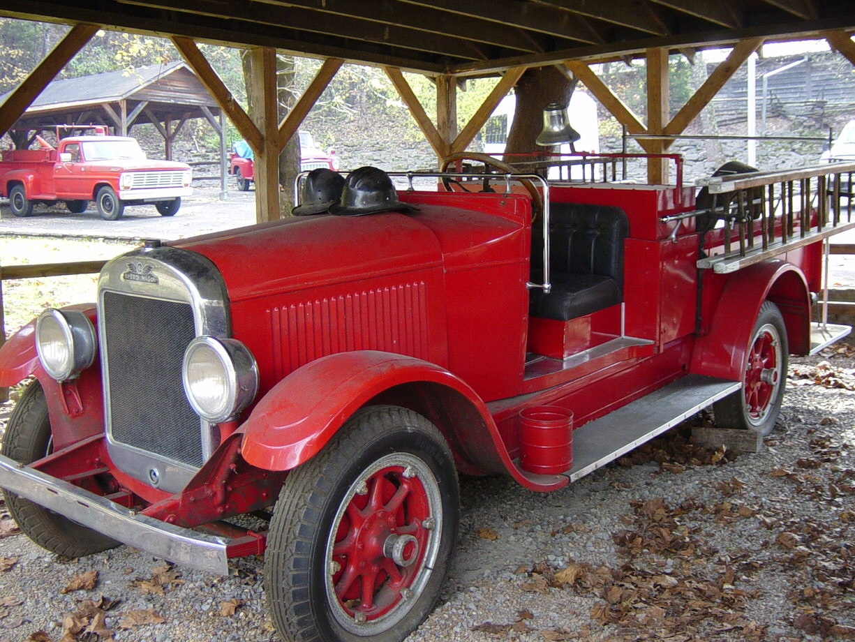 An REO Speed Wagon Fire Truck at the Jack Daniel's Distillery, Lynchburg, Tennessee. Taken during November 2004.